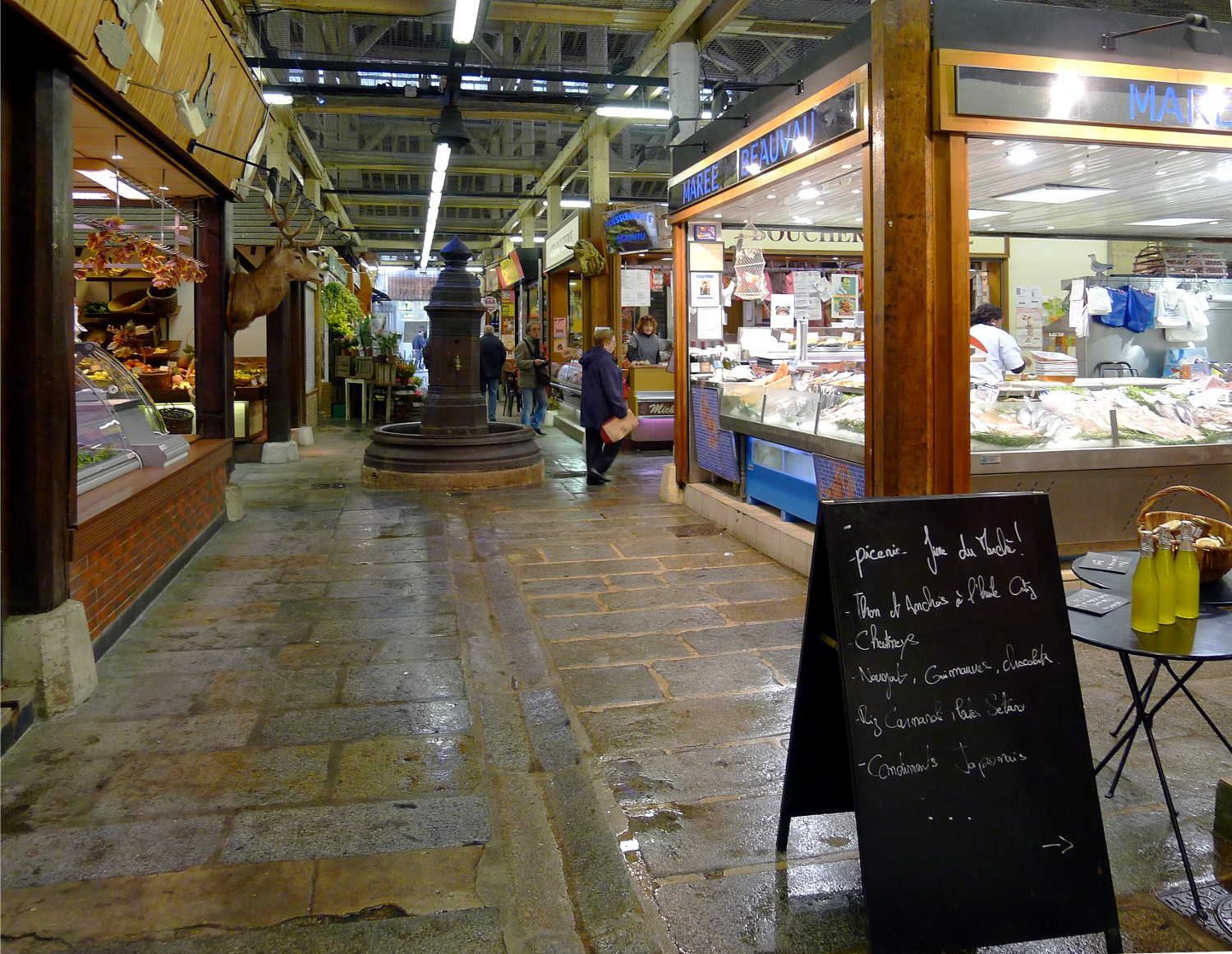 Beauvau market — Paris XIIe